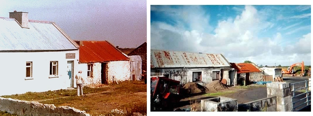 Two pictures of the same house in Owenbeg, Co. Sligo (Ireland): One in 1977 while it was still occupied, the second in 2007 after it had been abandoned and was about to be demolished.